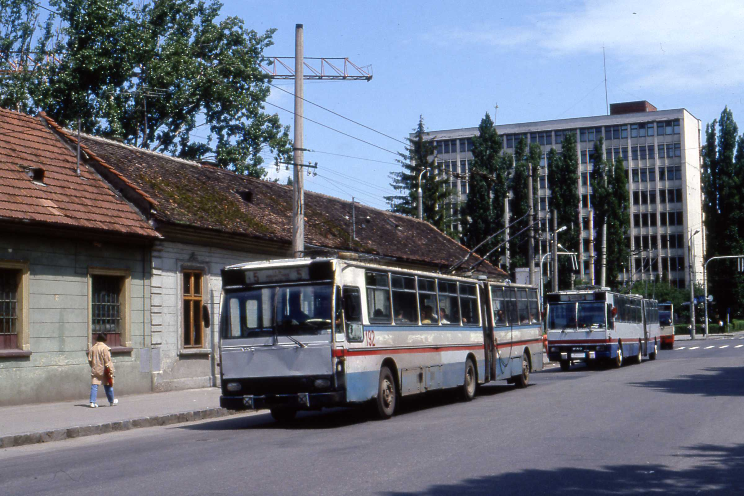 192 was a Rocar 117EA trolleybus